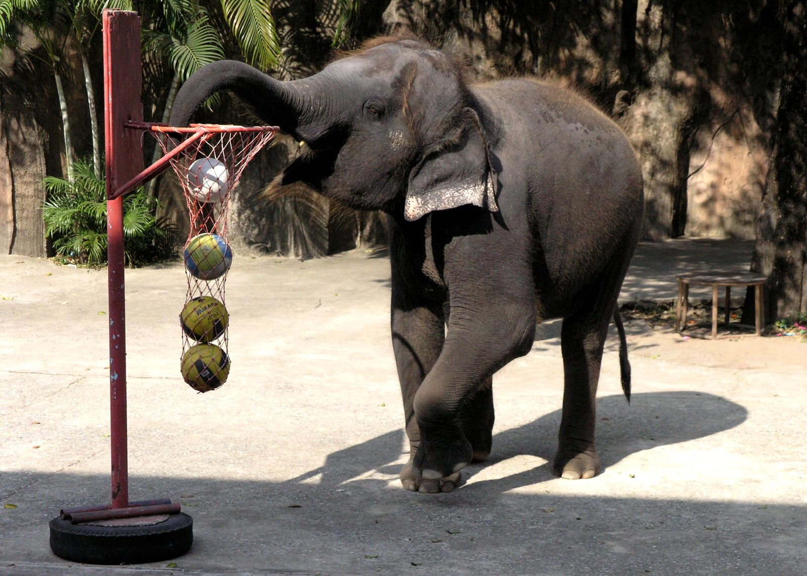 Elephant at Sri Ratcha Zoo enjoying his part in the show